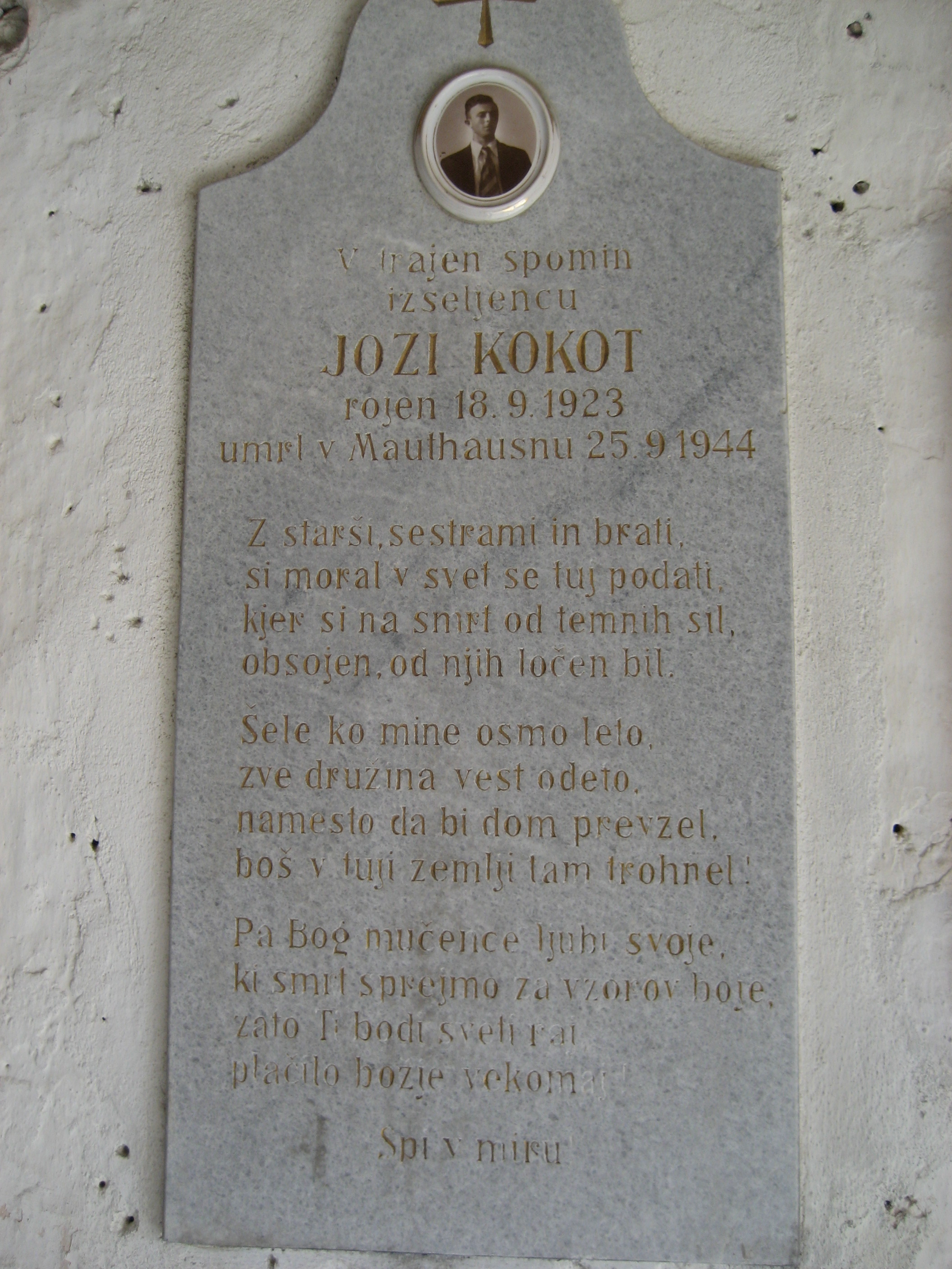 Kostanje / Köstenberg, Slovenian gravestone Jozi Kokot. Municipality Vrba / Velden am Wörther See in Carinthia/Austria